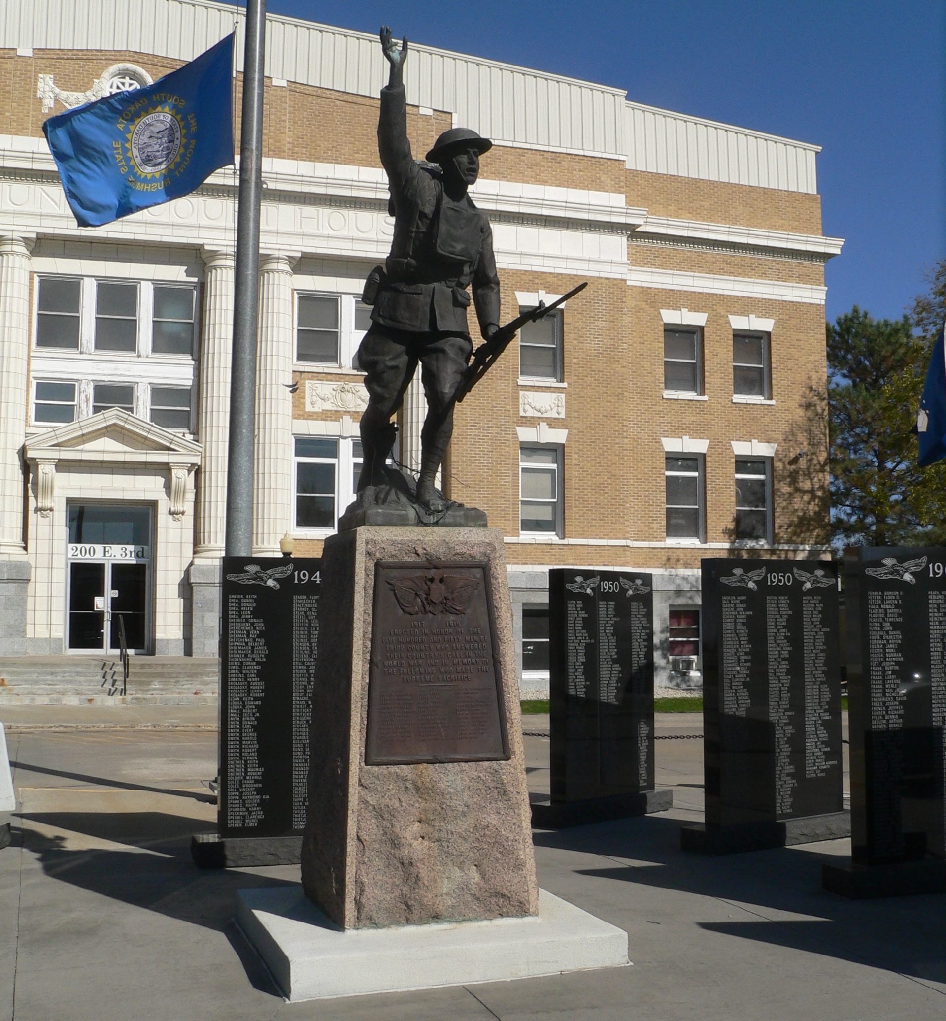 Tripp County veterans memorial, on south side of courthouse in Winner, South Dakota.